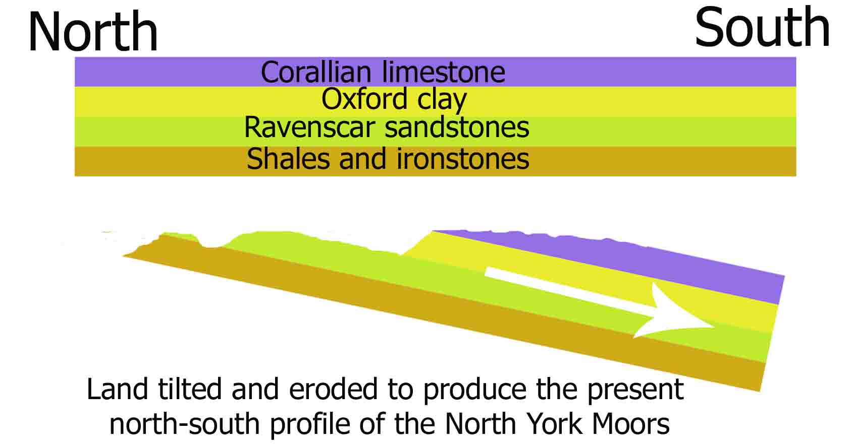 Image Notes